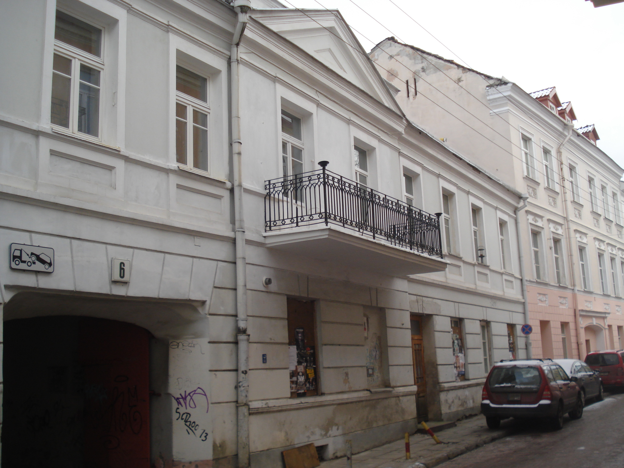 Stanislovo Skapo street 6 (Vilnius, Lithuania)